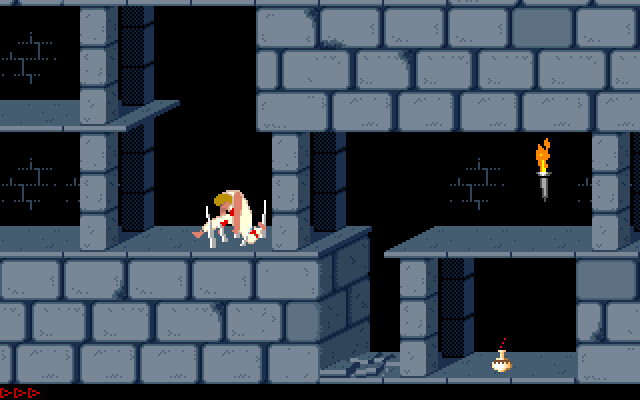 Screenshot from the video game (own work).